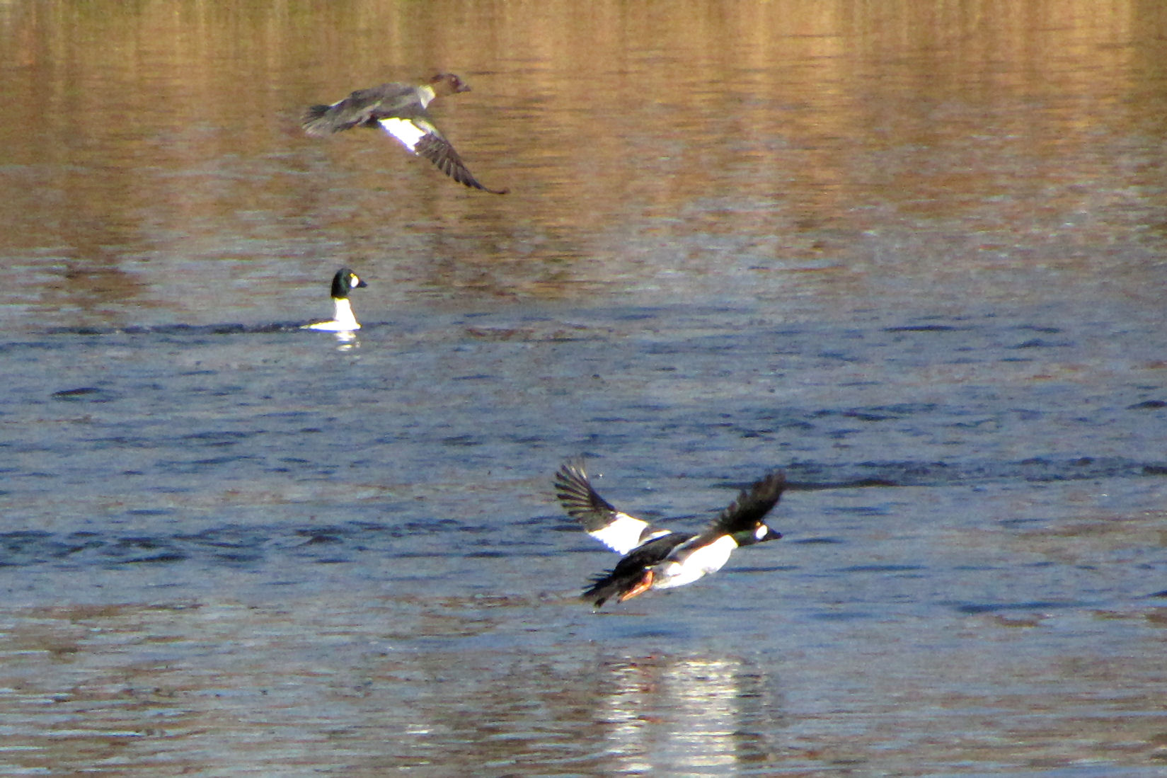 Common Goldeneyes (Bucephala clangula), in flight, Rideau River, Ottawa, Ontario